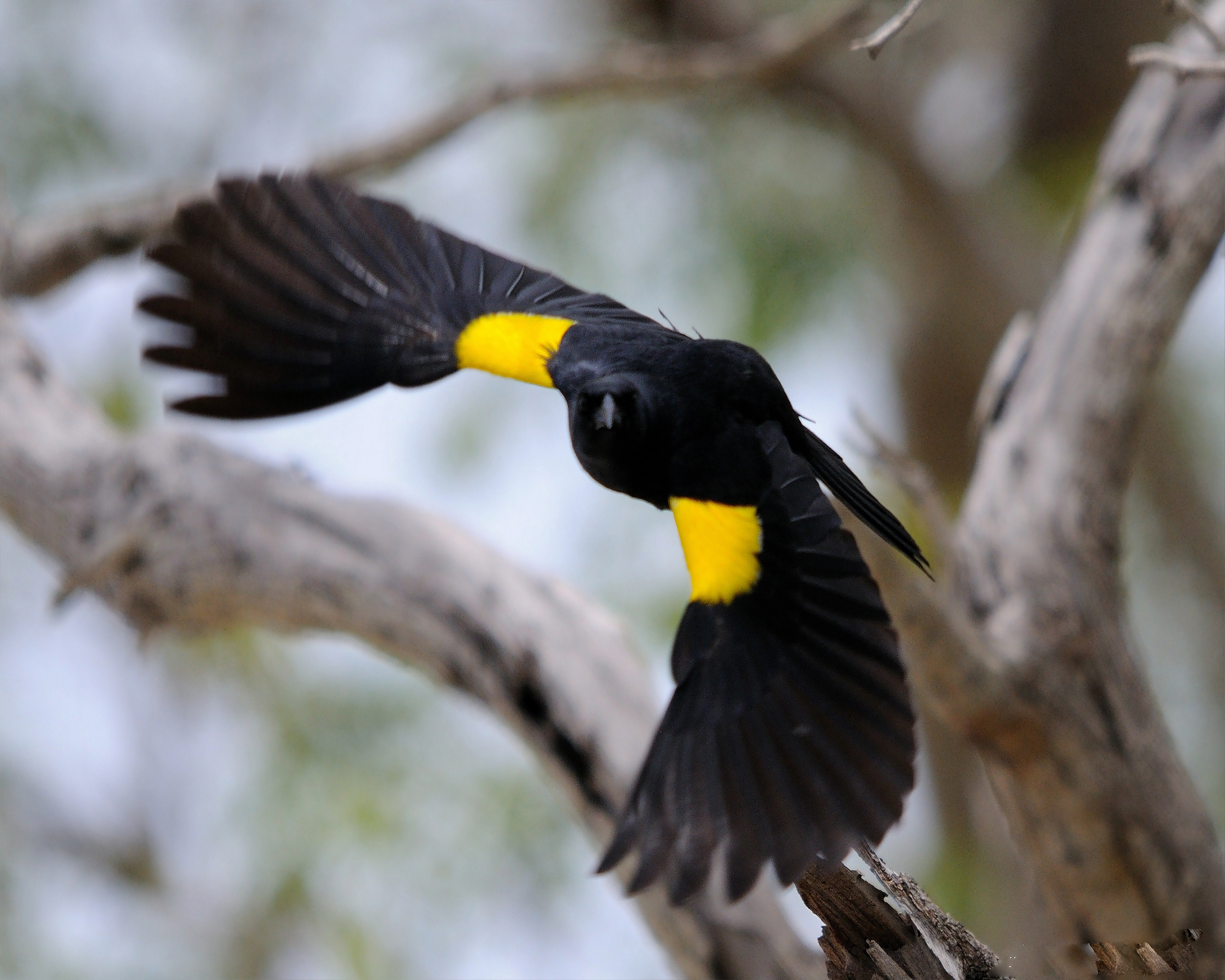 A Yellow-shouldered blackbird in Puerto Rico